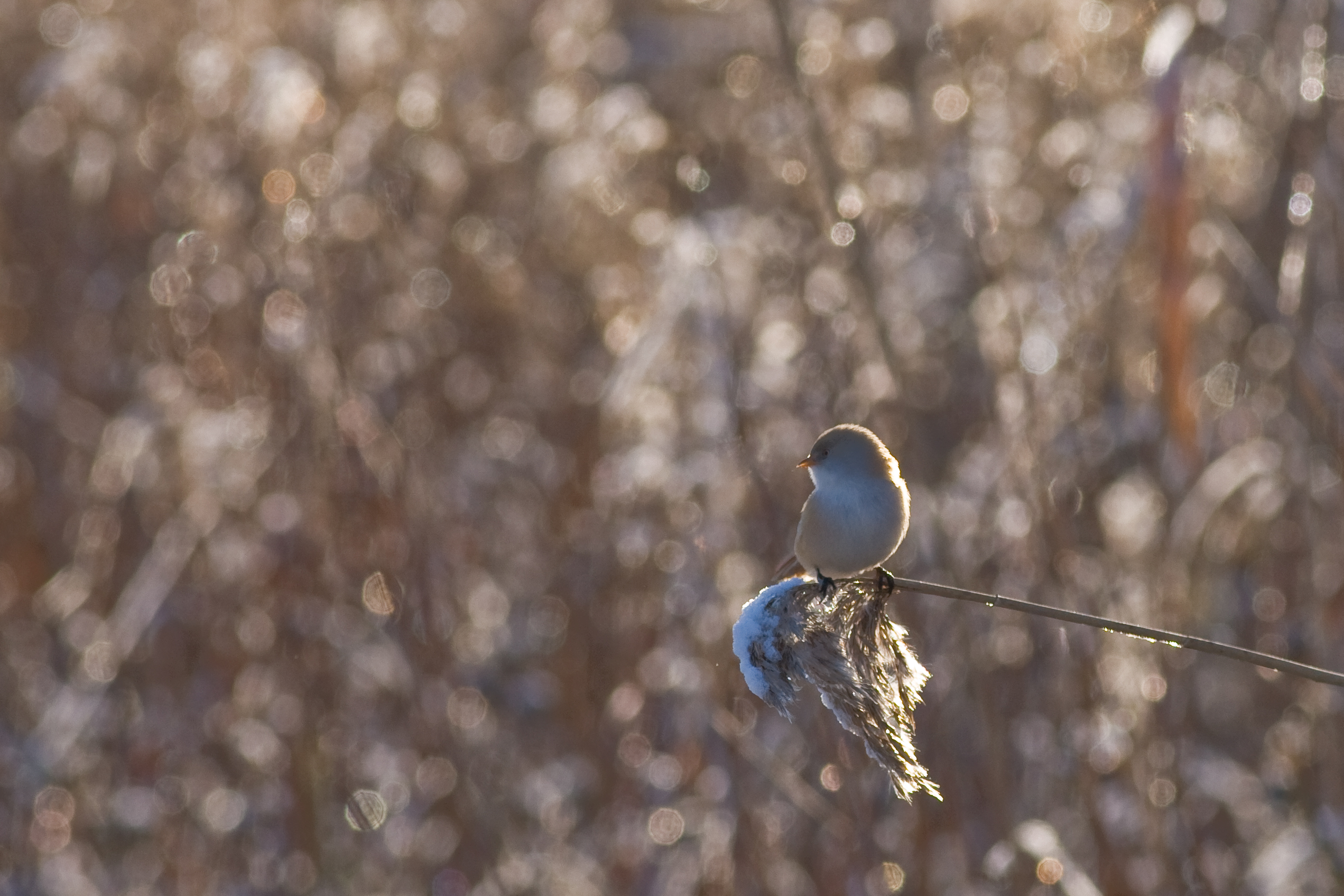 Panurus biarmicus (Bearded Reedling) female. This bird is photographed at Vanhankaupunginlahti, Helsinki, Finland. The location is listed in Ramsar "List of Wetlands of International Importance".